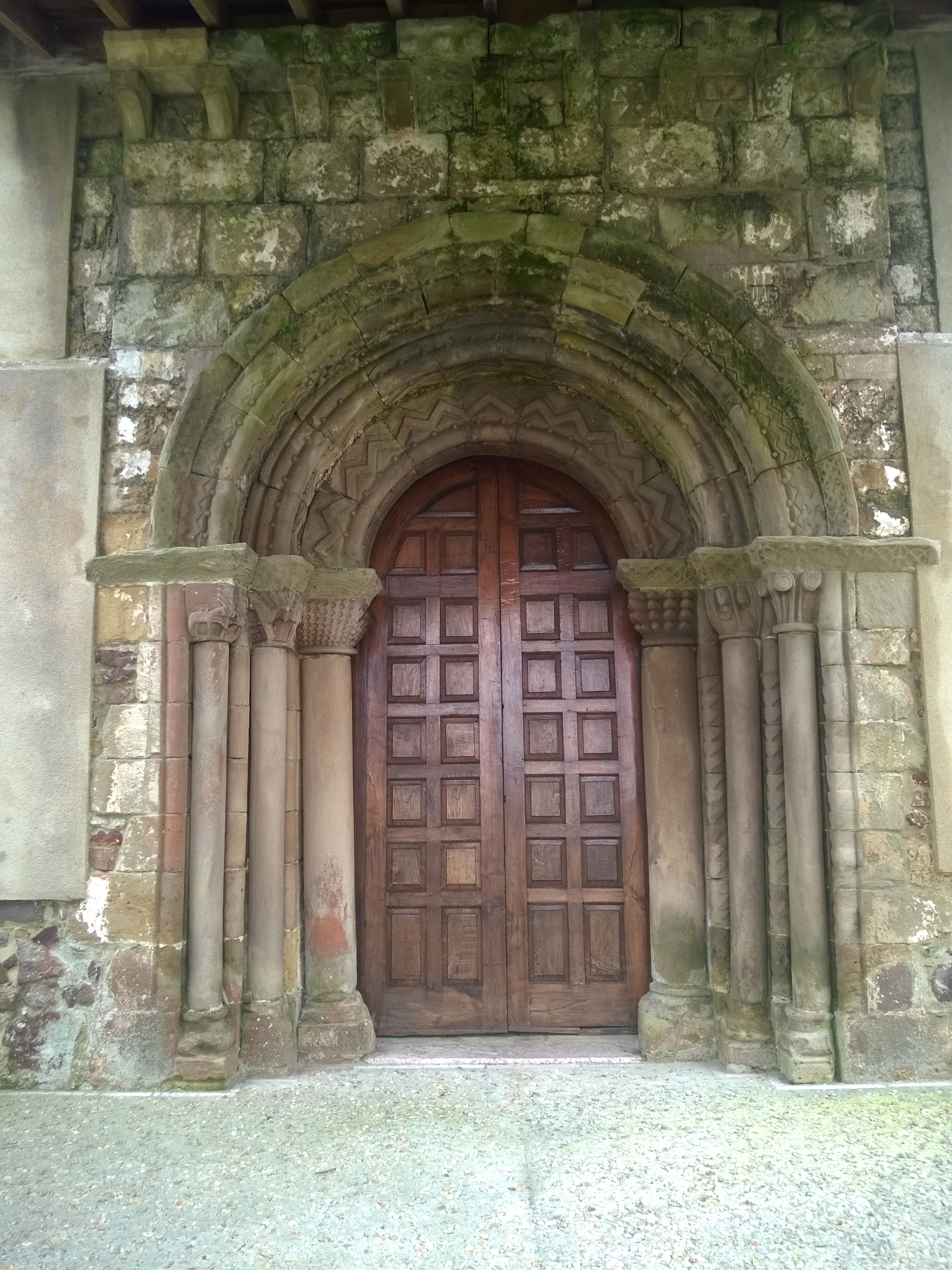 Main door (west front of the building)